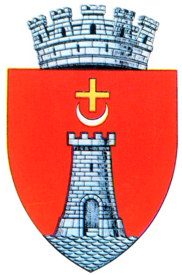 Interwar coat of arms of Izmail, Ismail County, Kingdom of Romania.